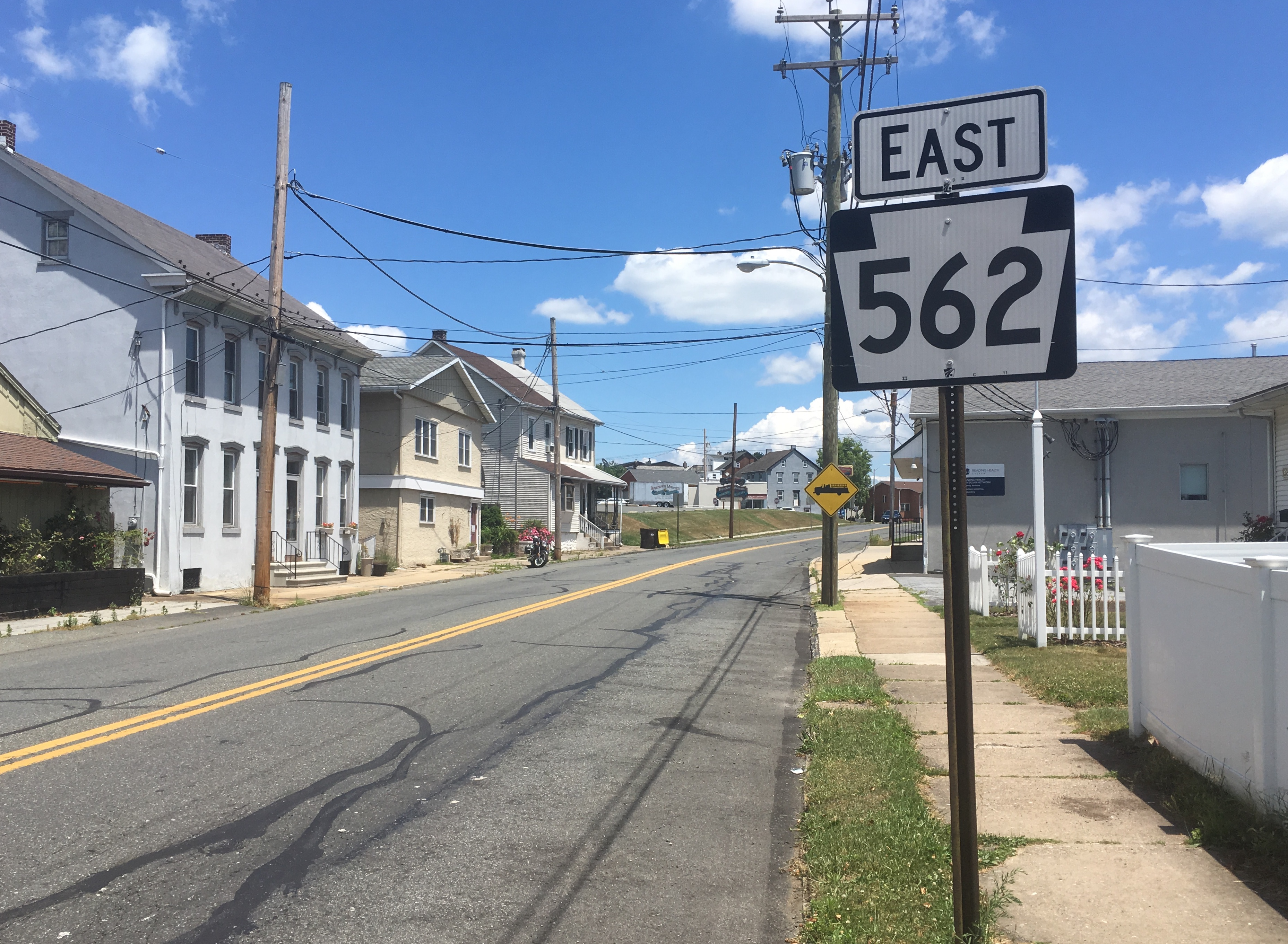 Eastbound Pennsylvania Route 562 (Reading Avenue) past the intersection with 2nd Street in Boyertown, Pennsylvania